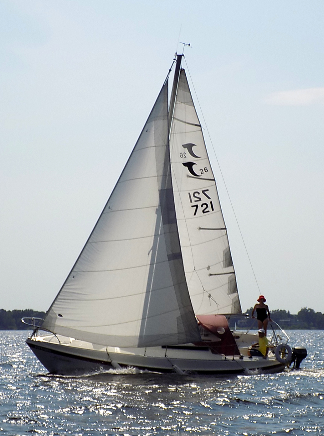 A Tanzer 26 sailboat named Archimedes.